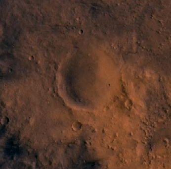 Jezero Crater area Mars digital-image mosaic merged with color of the MC-13 quadrangle, Syrtis Major region of Mars. The central part is dominated by dark dust and lava flows of the Syrtis Major Planitia region. These lava flows are partly bounded to the east by a large depression, Isidis basin, which contains smooth plains, and to the west and north by heavily cratered and moderately faulted highlands. Latitude range 0 to 30 degrees, longitude range -90 to -45 degrees.